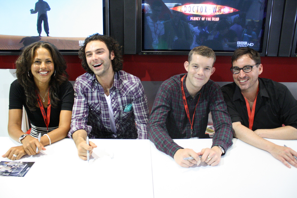 Lenora Crichlow, Aidan Turner, Russell Tovey and Toby Whithouse at the 2009 comic-con.